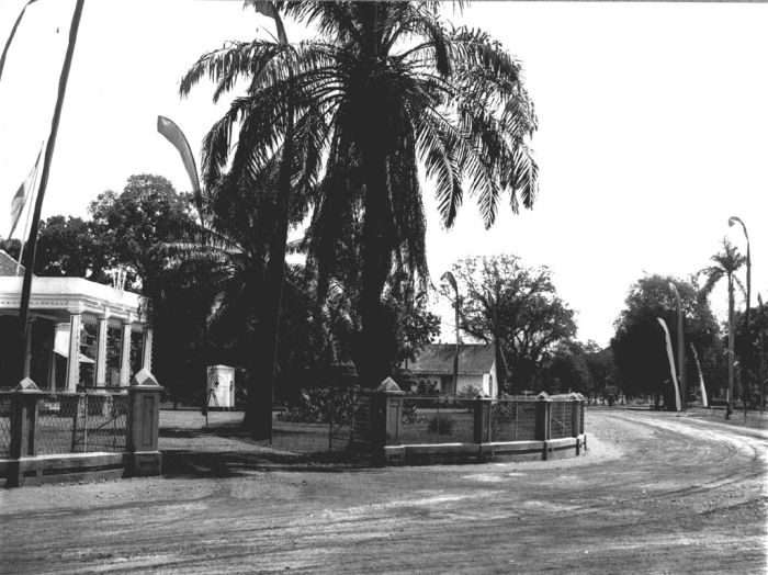 Foto's van de feesten in het Gewest Pekalongan ter herdenking van het zilveren Regeeringsjubileum van Hare Majesteit Wilhelmina, Koningin der Nederlanden